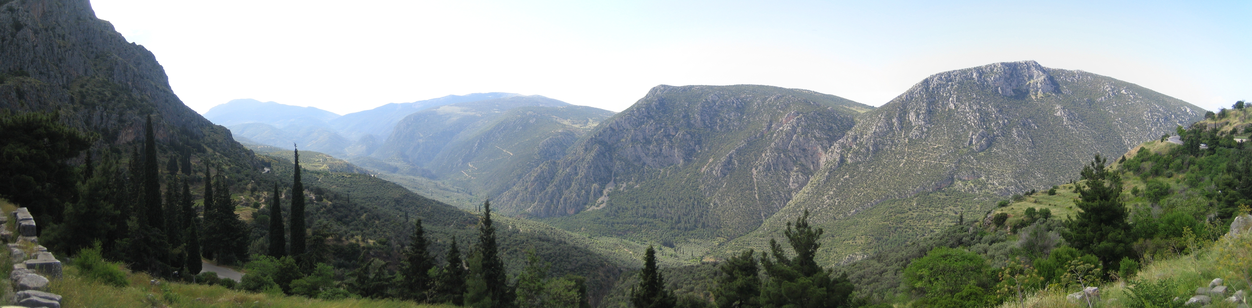 Panorama of Delphi Valley.